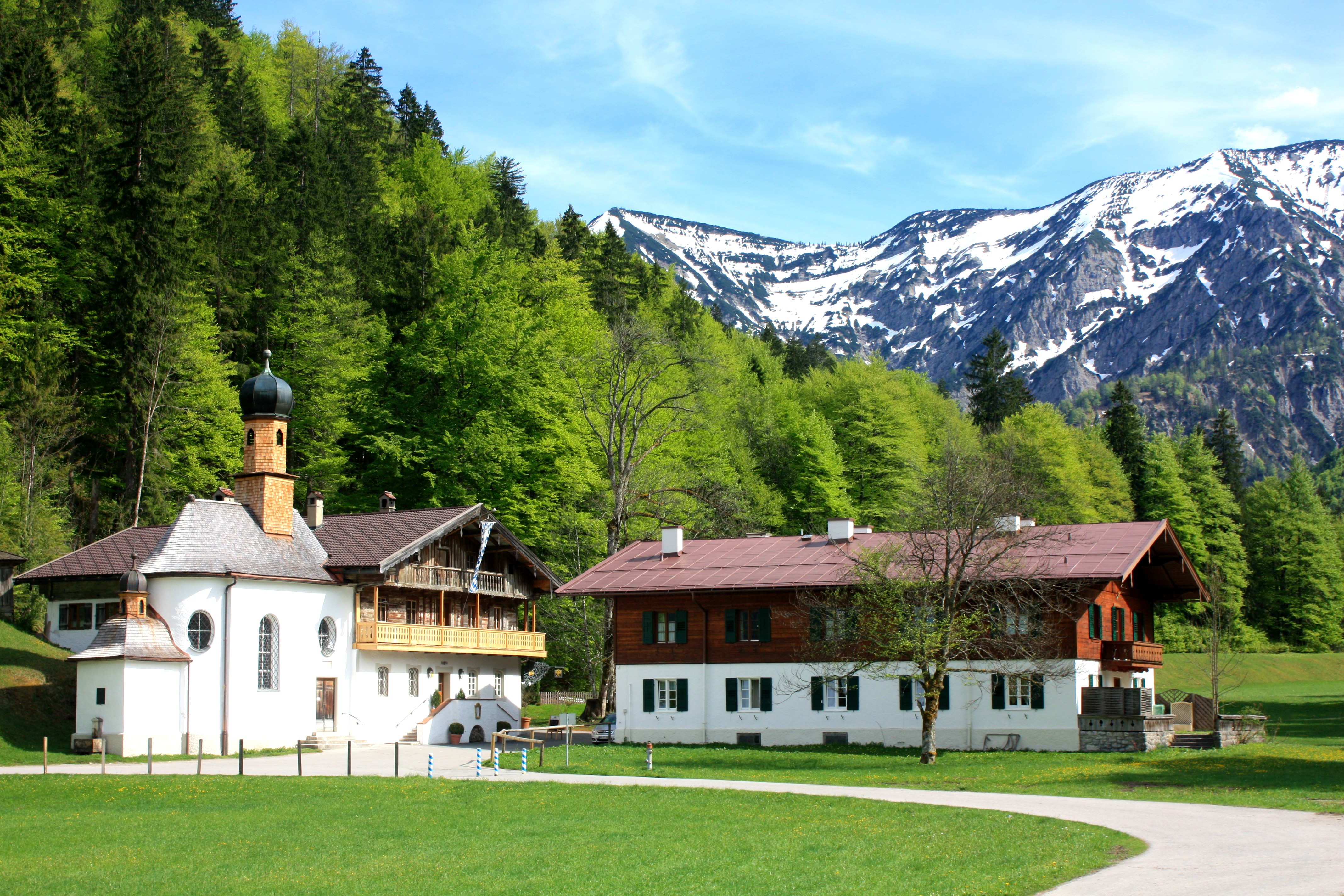 Chapel and Old Bath" in Wildbad Kreuth, Bavaria, Germany